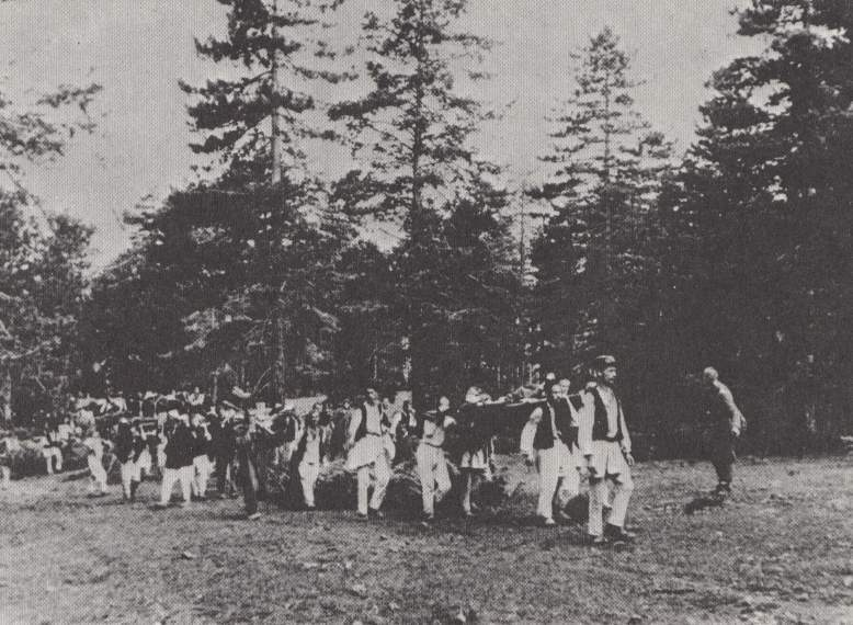 Peasants carry wounded partisans from the 5.offensive, 1943.